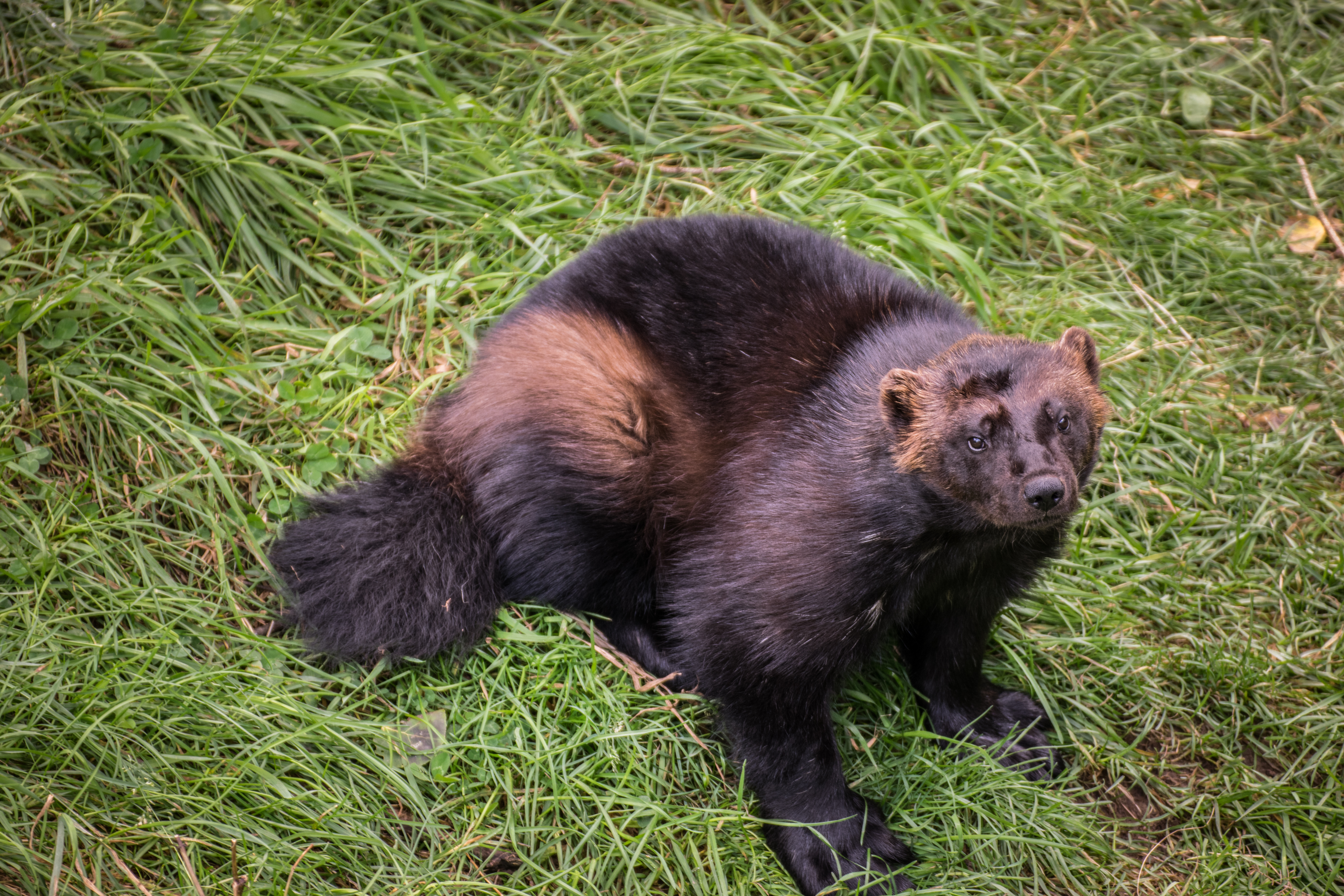 A Wolverine at the Wild Zoo of St-Félicien (Quebec, Canada).